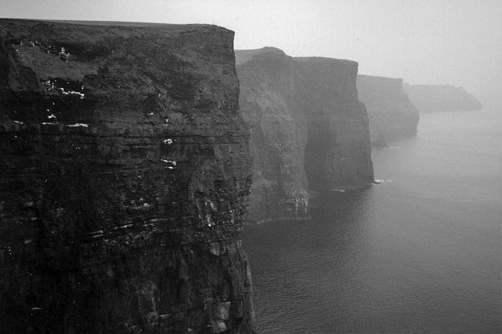 Cliffs of Moher in County Clare, Ireland.